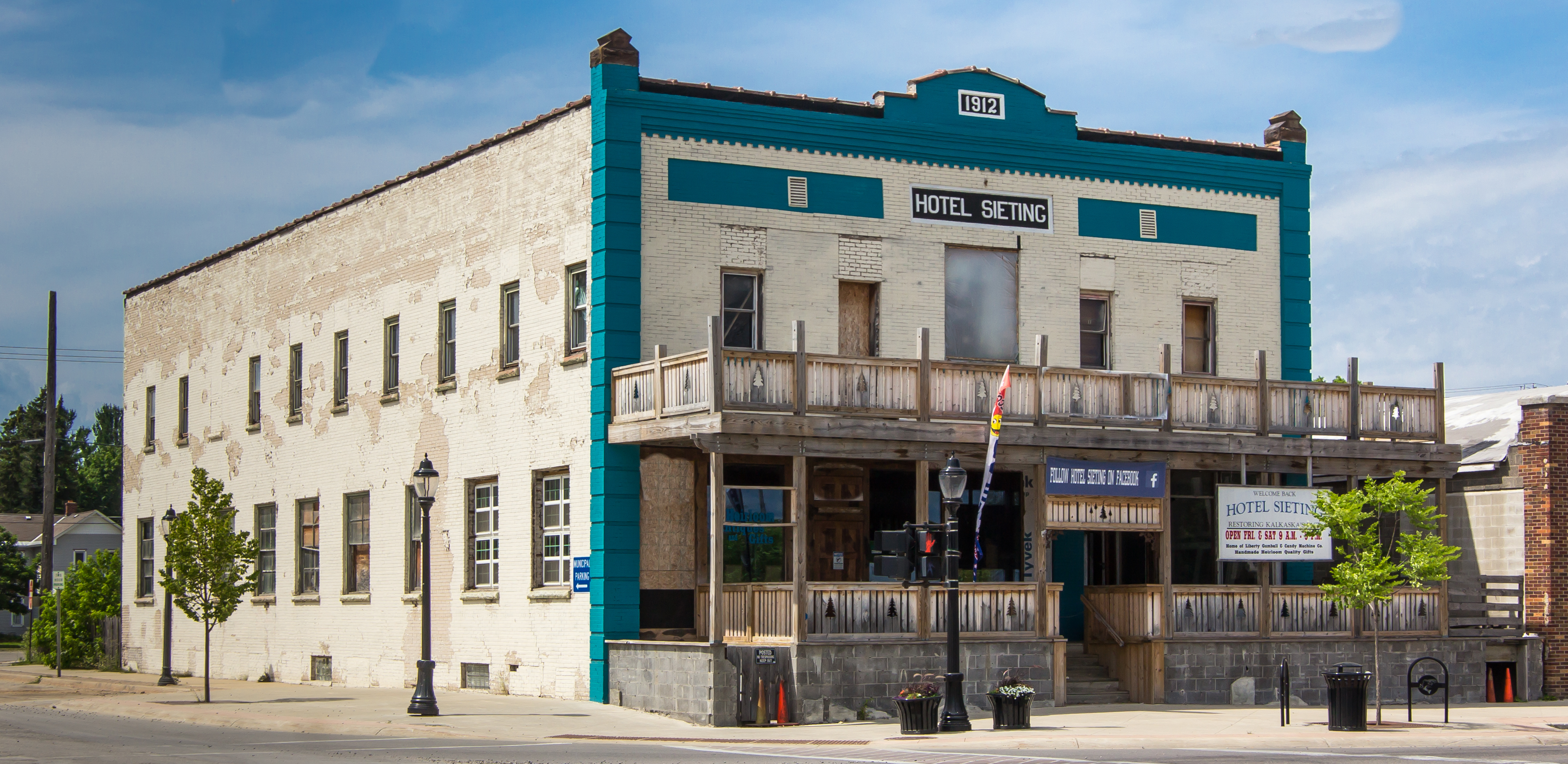 Hotel Sieting